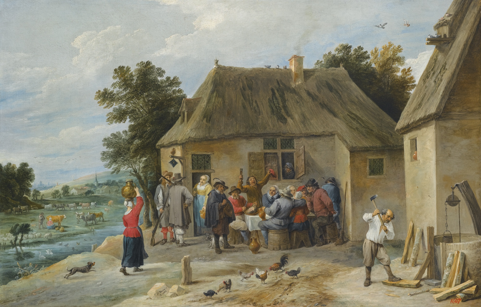 A Countryside Inn, with the innkeeper chopping wood